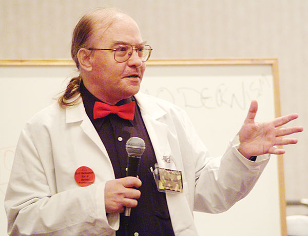 John M. Ford doing Dr. Mike at Minicon 38